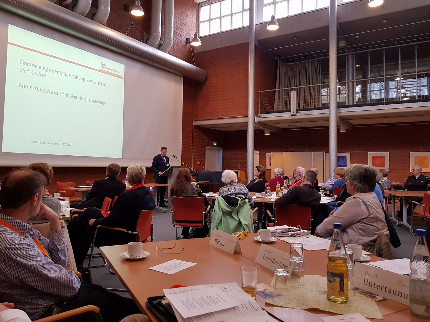 Diözesanversammlung im Wilhelm-Kempf-Haus in Wiesbaden-Nauroth am 28. Oktober 2017